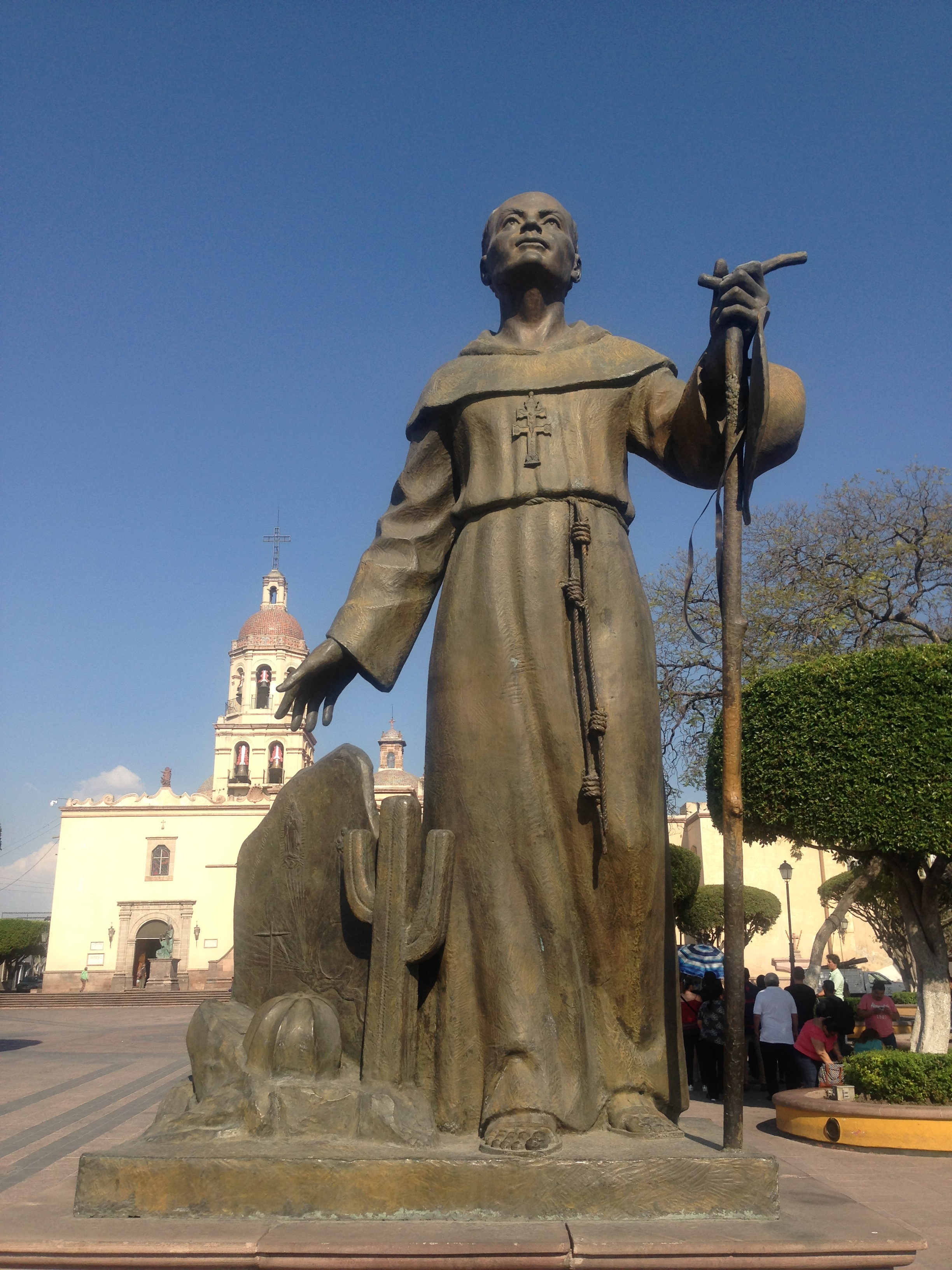 Life-size bronze sculpture artwork of Alberto Perez Soria depicting Friar Antonio Margil de Jesus (1657 - 1726) located at the atrium of Holy Cross Church in Queretaro, unveiled on November 1984.